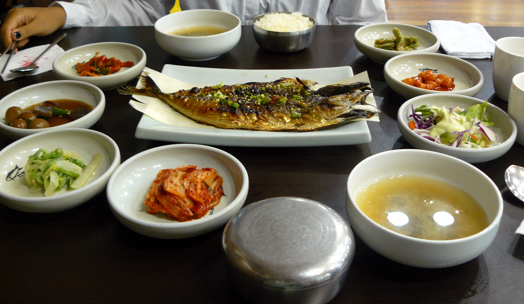 Godeungeo gui, a variety of gui or grilled dish made with mackerel in Korean cuisine